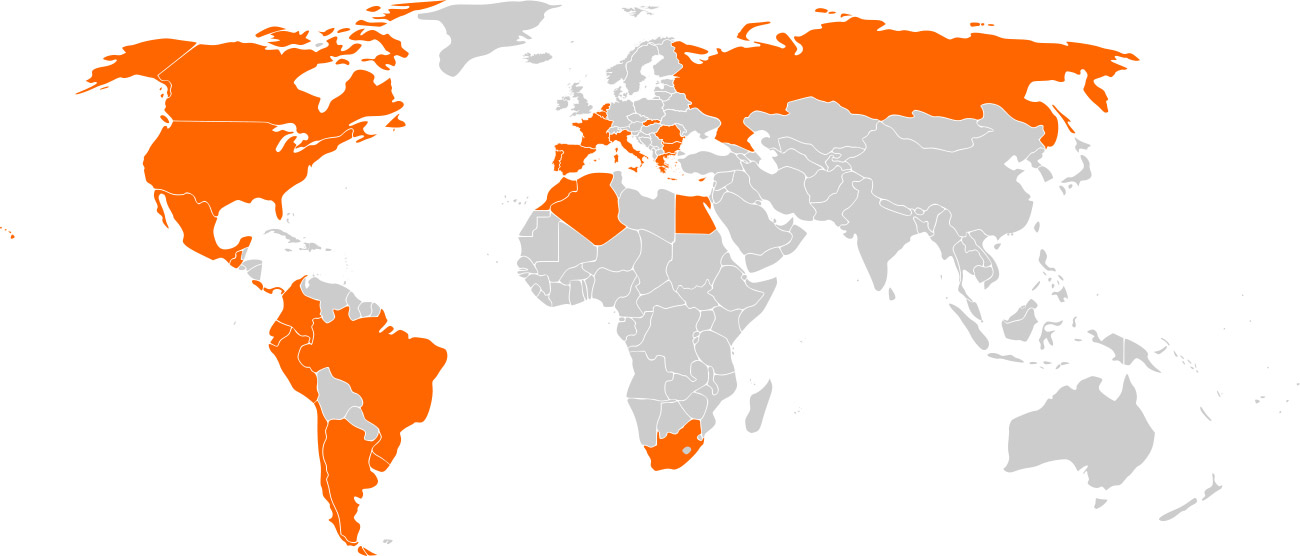 Enel world production sites